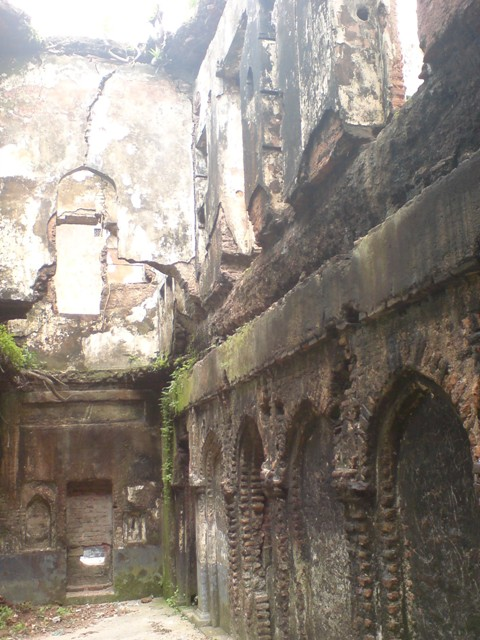 Several hundred years old city building at Sonarga, Narayangang Bangladesh. (Inside a building)